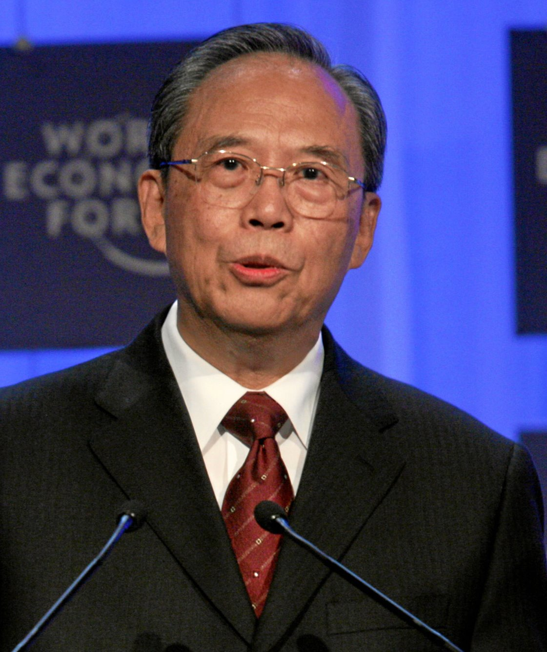 DAVOS/SWITZERLAND, 24JAN08 - Zeng Peiyan, Vice-Premier of the People's Republic of China, captured during the session 'Special Message and Conversation with Vice-Premier Zeng Peiyan' at the Annual Meeting 2008 of the World Economic Forum in Davos, Switzerland, January 24, 2008. Copyright World Economic Forum ( by Andy Mettler